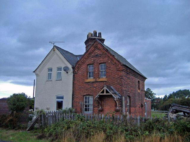 Plemstall Crossing. Mickle Trafford. Former railway crossing keeper's cottages at Plemstall crossing seen from the railway crossing. The one on the right is derelict.